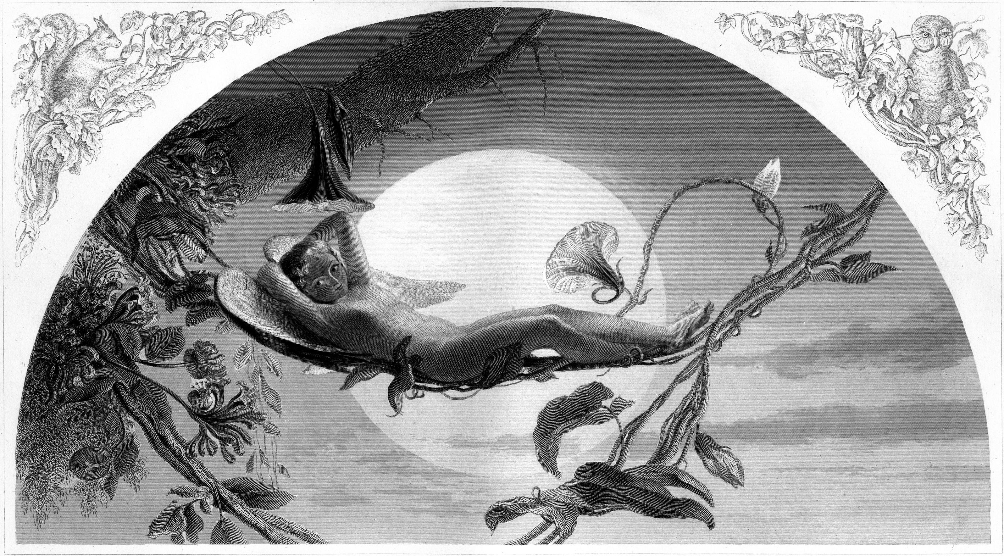 Ariel (from The Tempest)